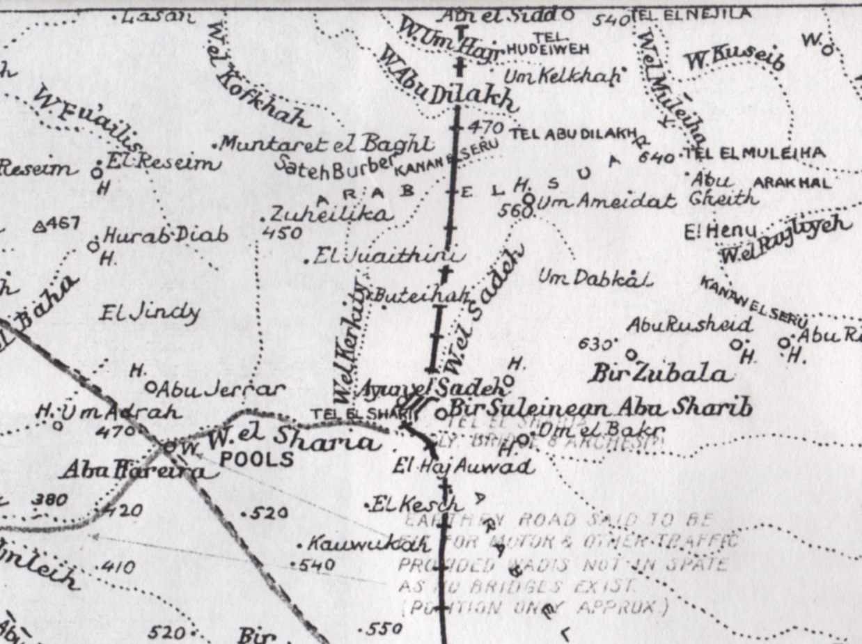 Detail of 1917 El Arish to Beersheba Map Scale 1:250,000